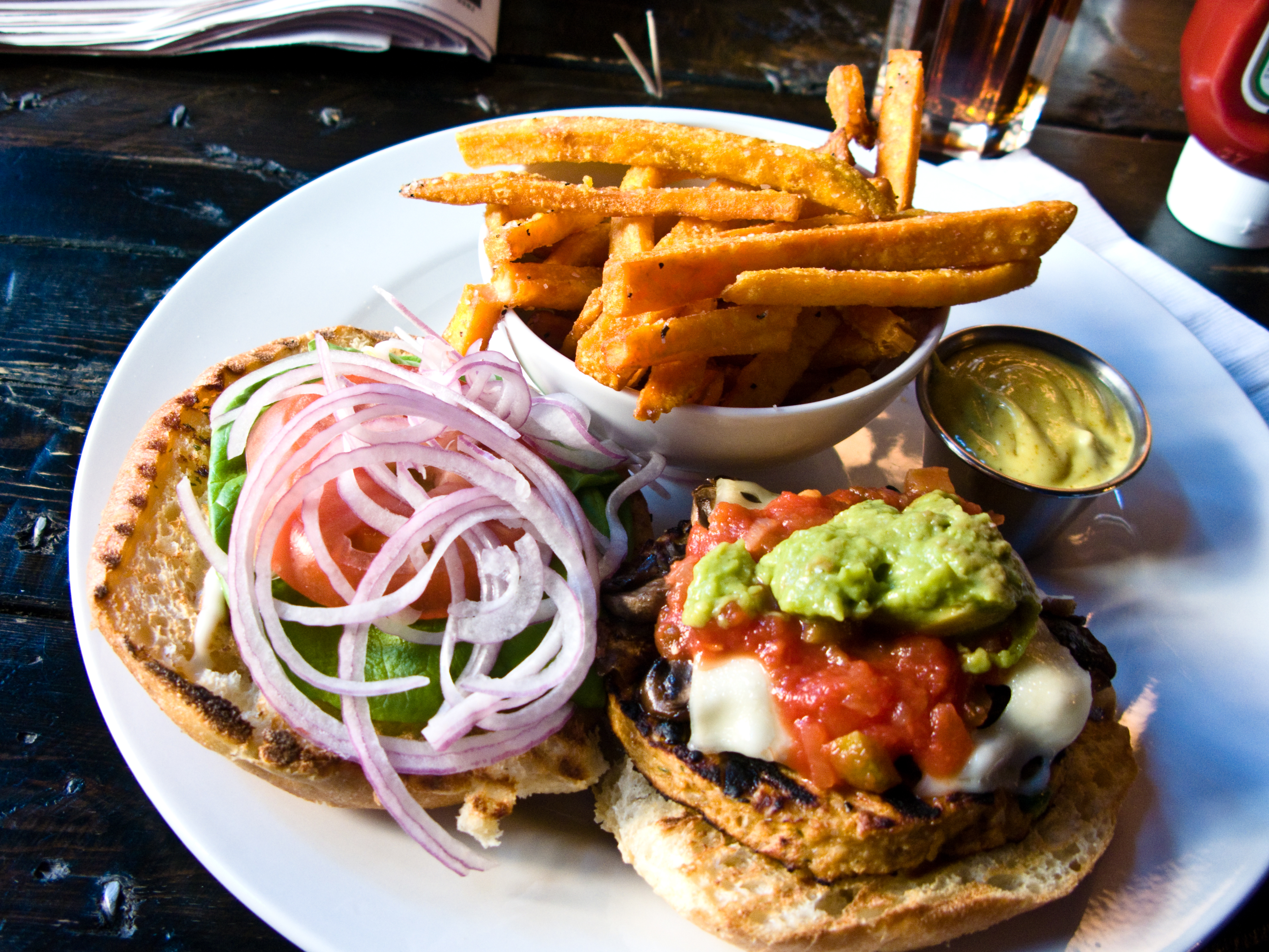 Veggie Burger